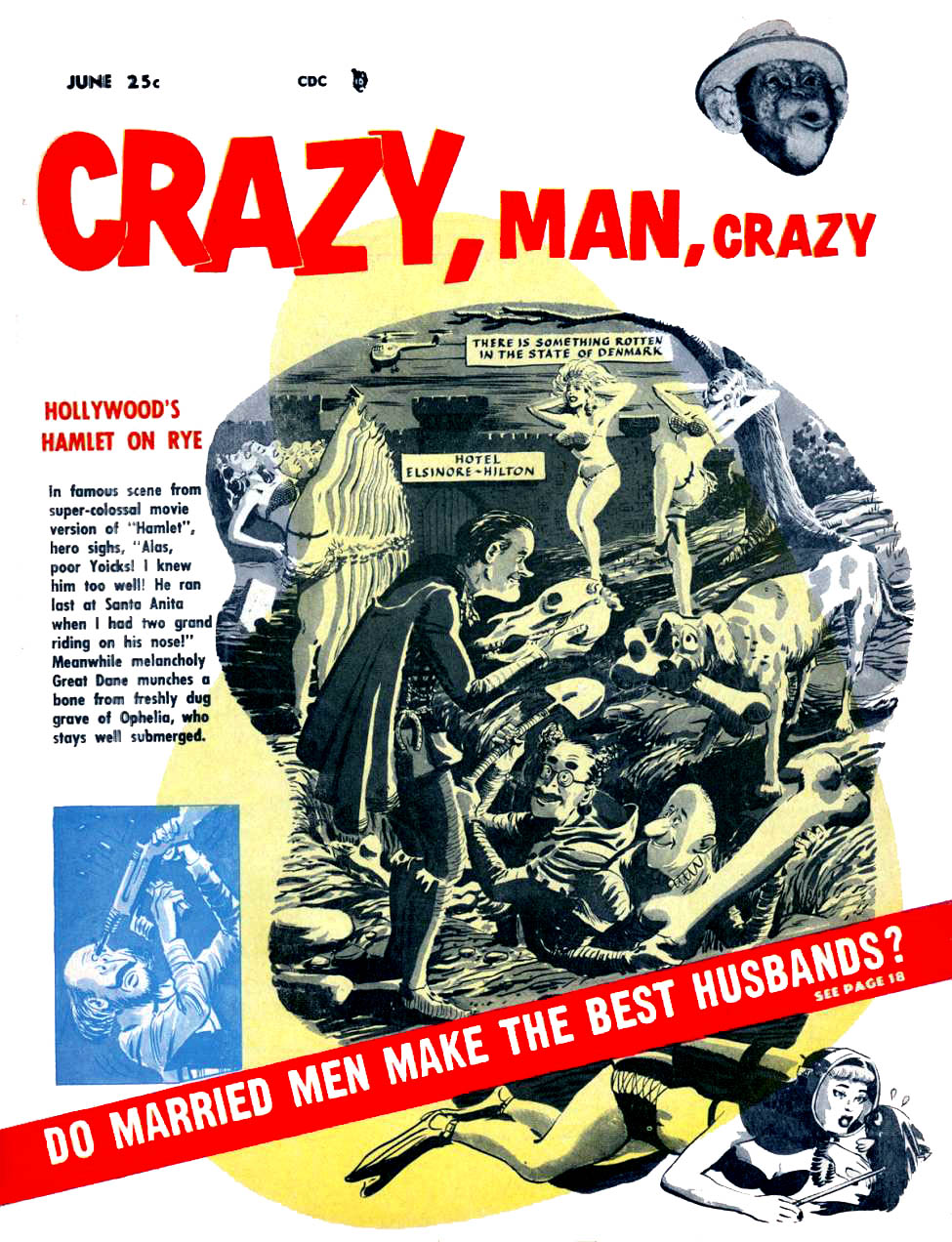 Cover art for Crazy, Man, Crazy number 2 (Charlton Comics, June 1956). Following in the wake of Mad Magazine, Charlton tried its hand at several black and white satire titles aimed at a more mature audience.